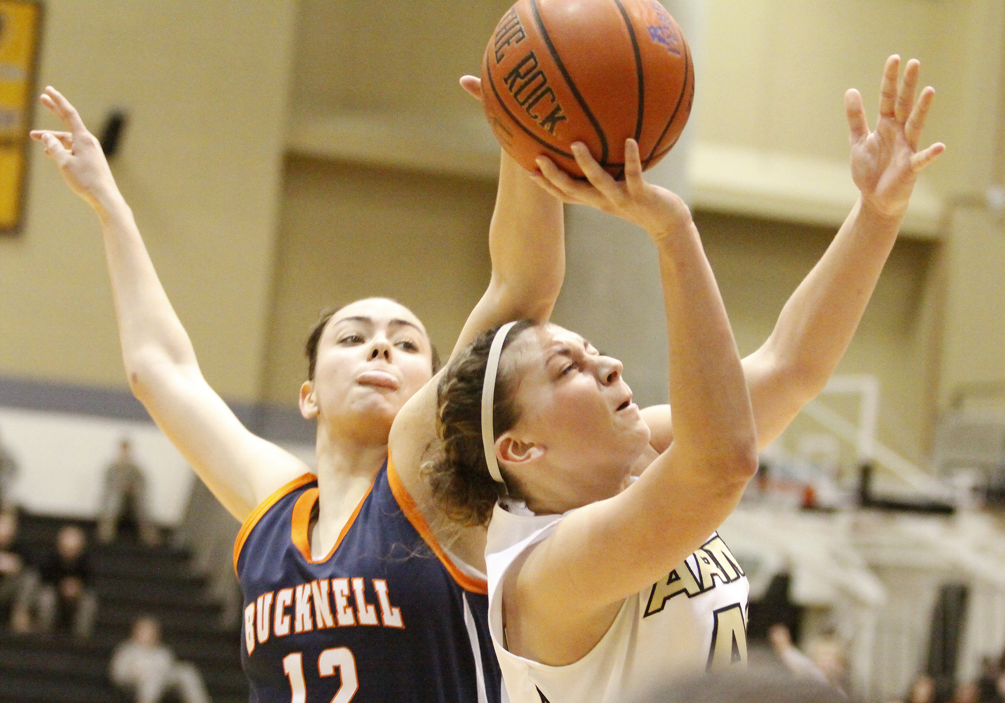 Army senior guard Laura Baranek gets her shot blocked by Bucknell's Rachel Voss Feb. 26 2011 at Christl Arena during a Patriot League women's basketball game. Bucknell defeated Army 44-40 during Army's Senior Day. Army is now 13-15 on the season with a 7-7 Patriot League record.